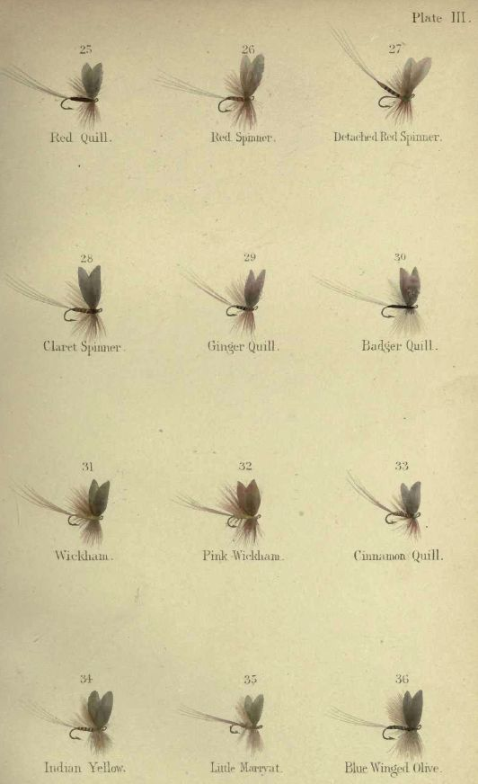 Plate III From Floating Flies And How To Dress Them, Frederick Halford (London 1886)